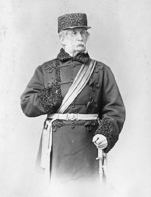 Lt. Gen. Sir John Michel KCB, Commander of Forces in British North America, Montreal, QC, Canada